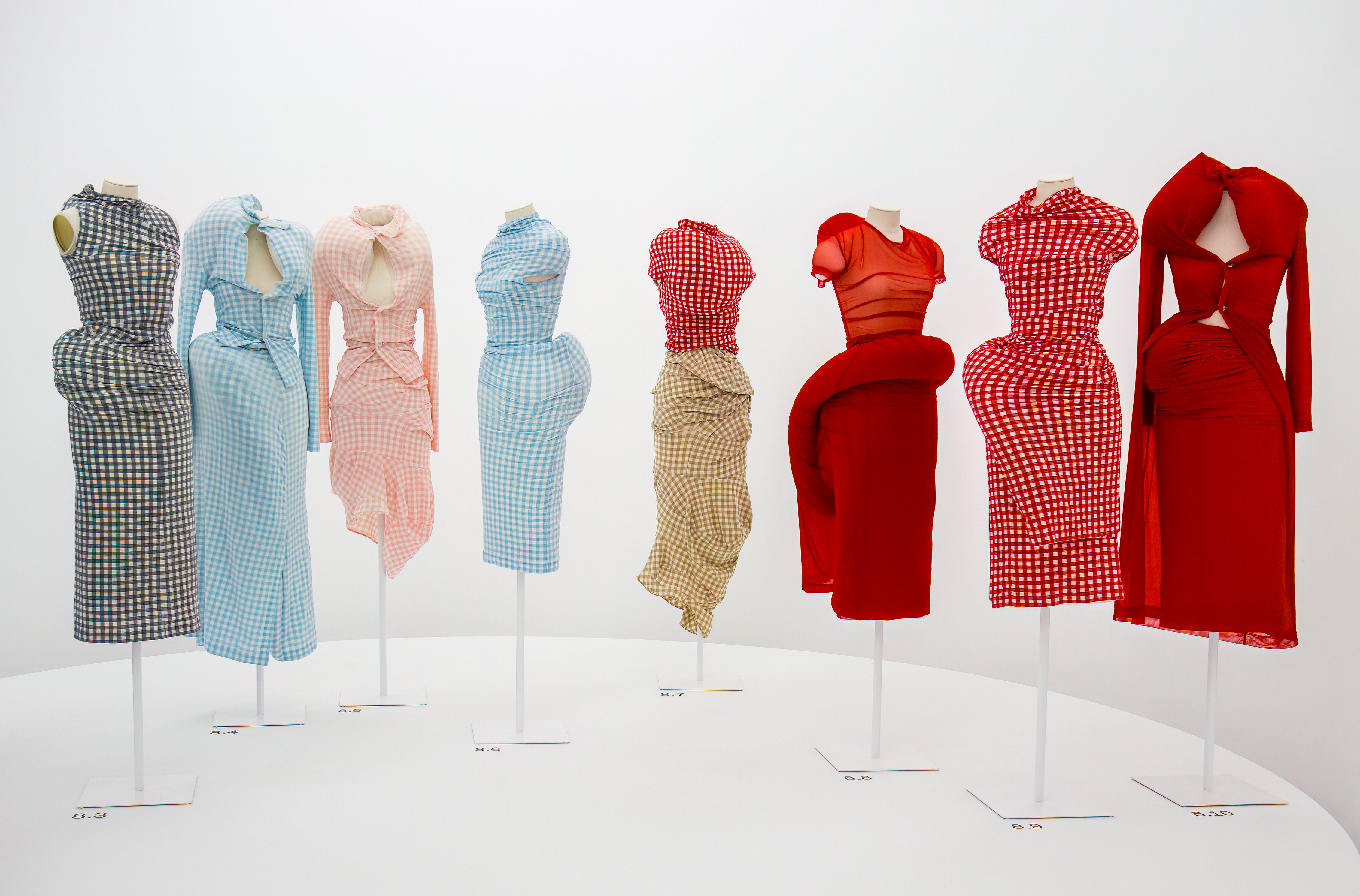 The Rei Kawakubo / Comme des Garcons Art of the In-Between show at the Met.